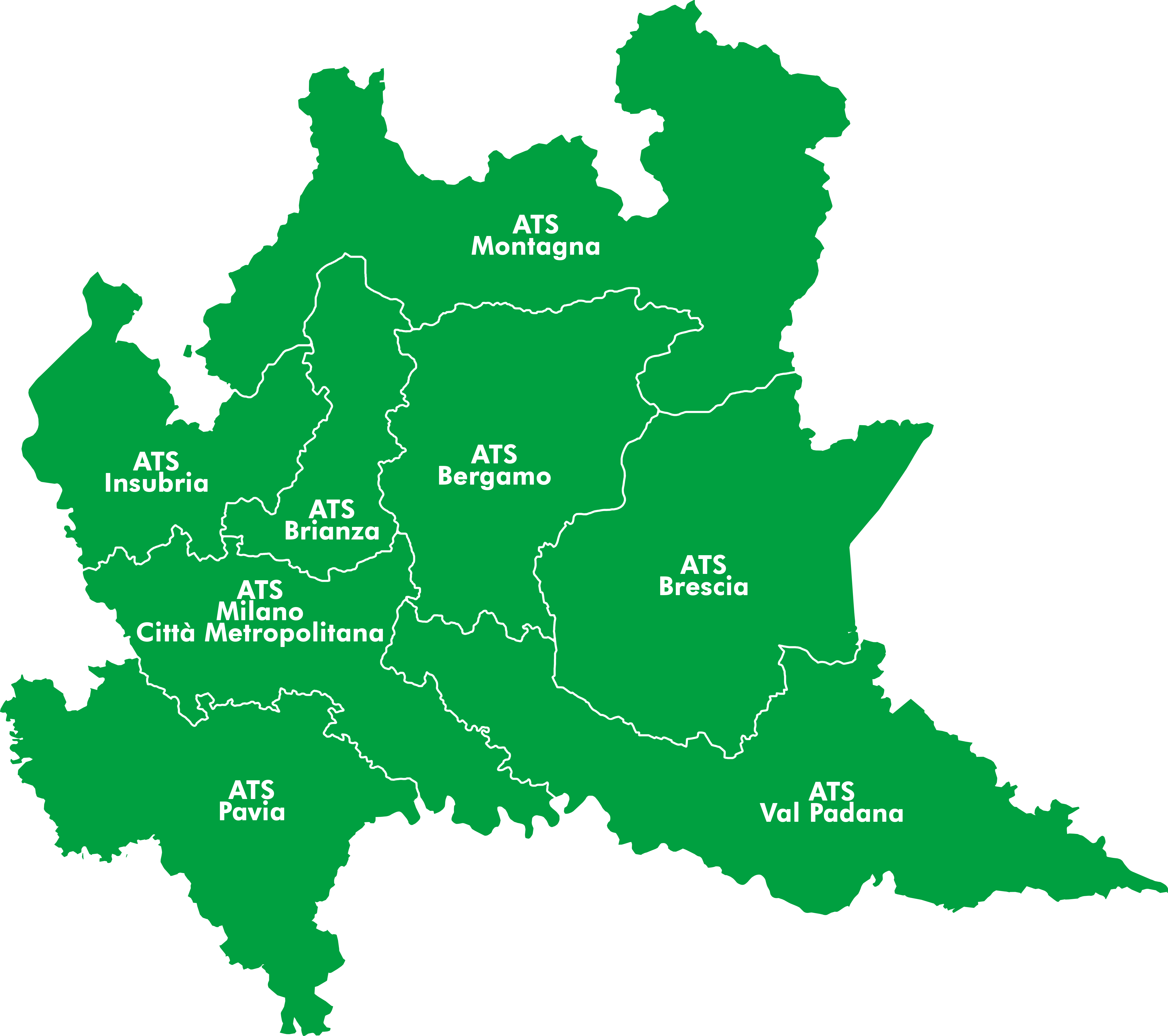 Lombardy social-healthcare system's map